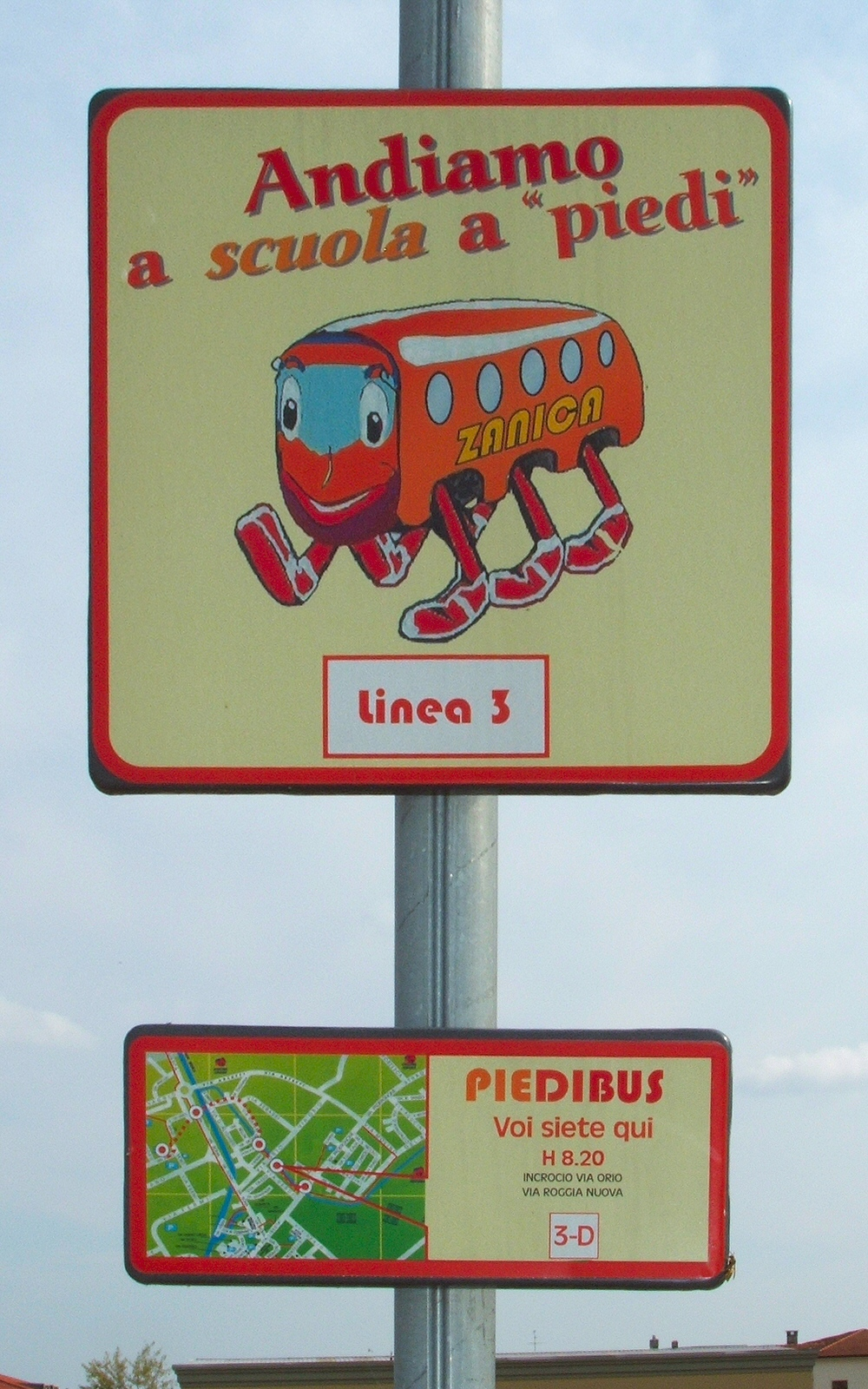 Piedibus (walk to school) stop sign in Zanica (BG) - Italy